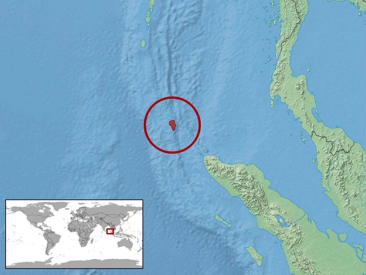 geographic distribution of Cyrtodactylus adleri (Native: India (Nicobar Is.))